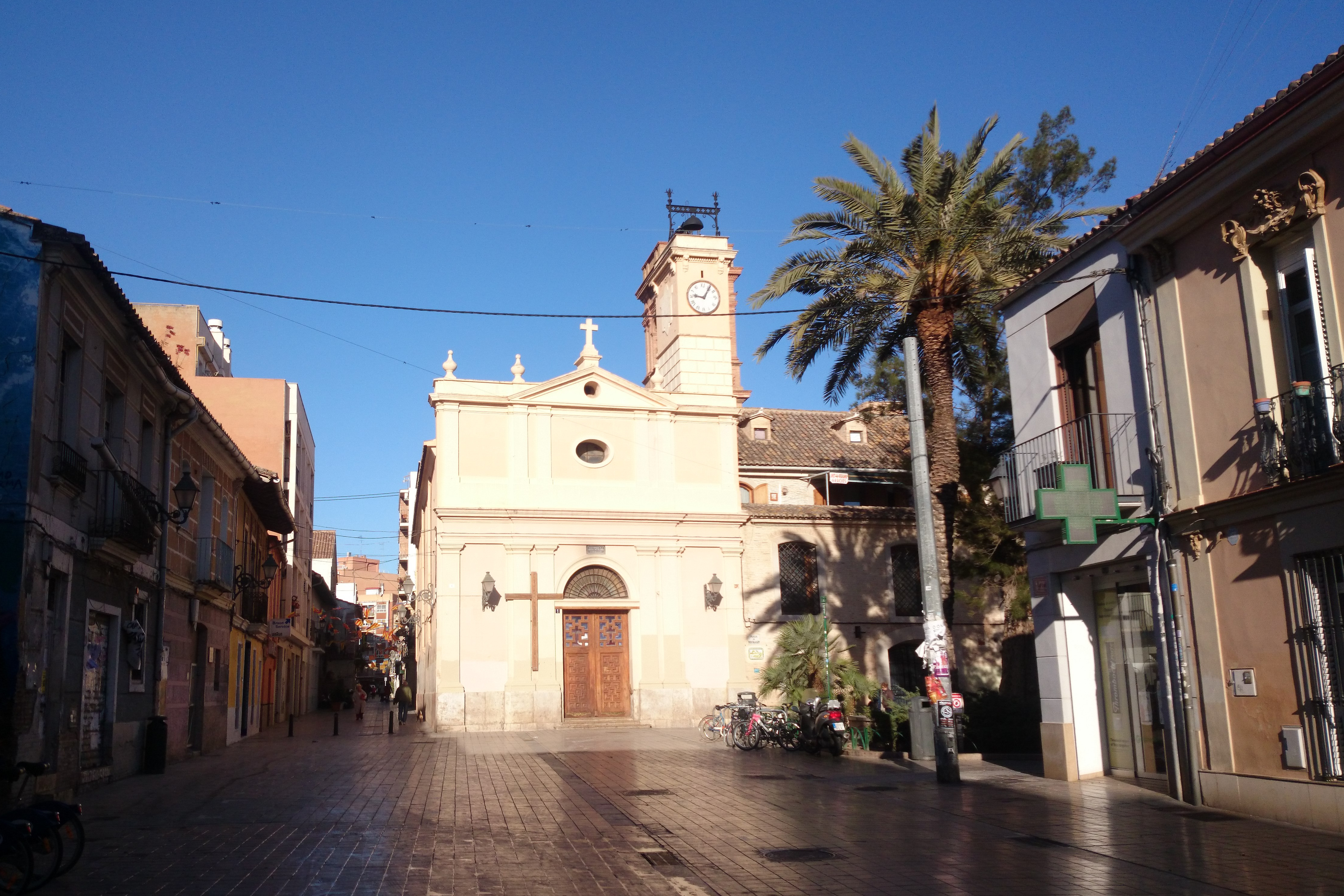 Plaça de Benimaclet with Iglesia Parroquial de la Asuncion de Nuestra Señora en Benimaclet, Valencia, Spain